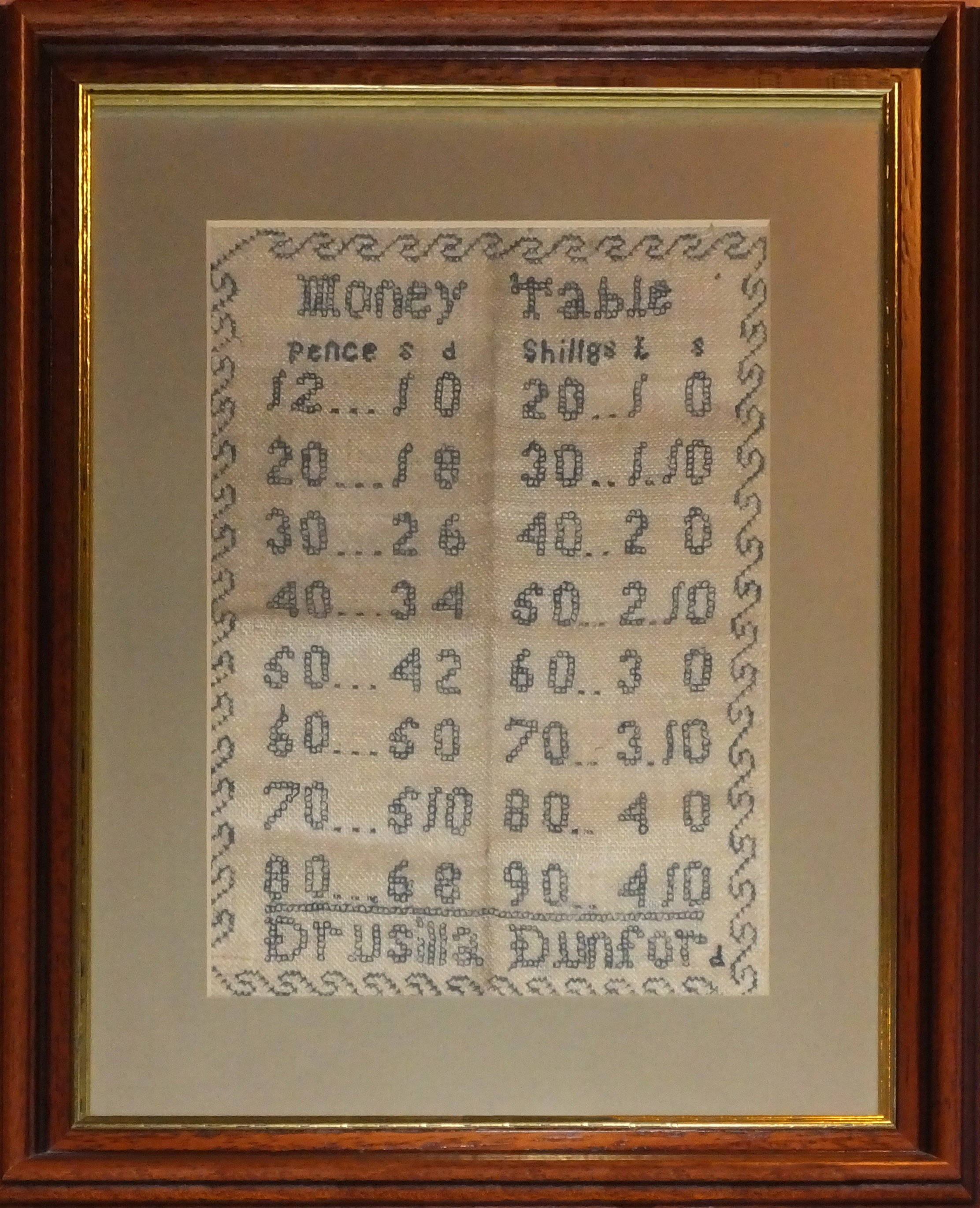 Collection of the Rochester Guildhall Museum in Rochester, Kent. Money table sampler by Drusilla Dunfordb